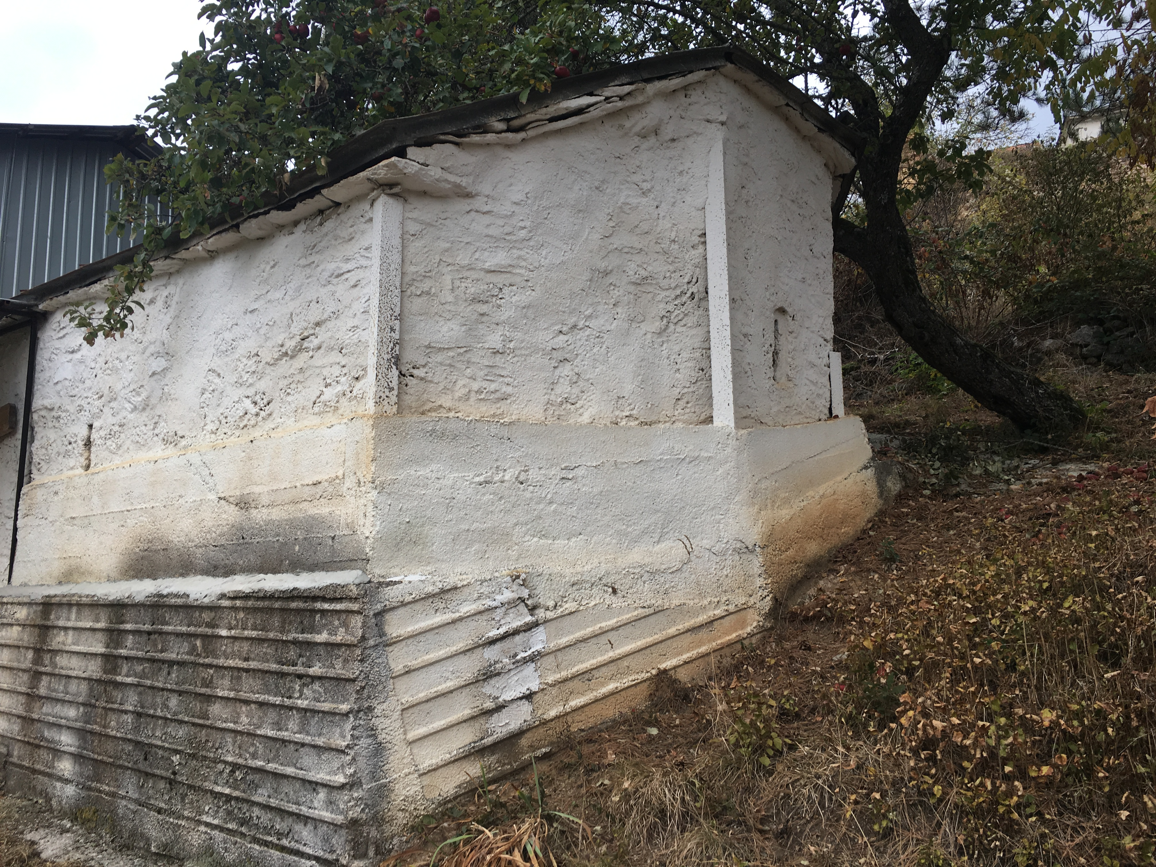 Wikiexpedition to Kopačka